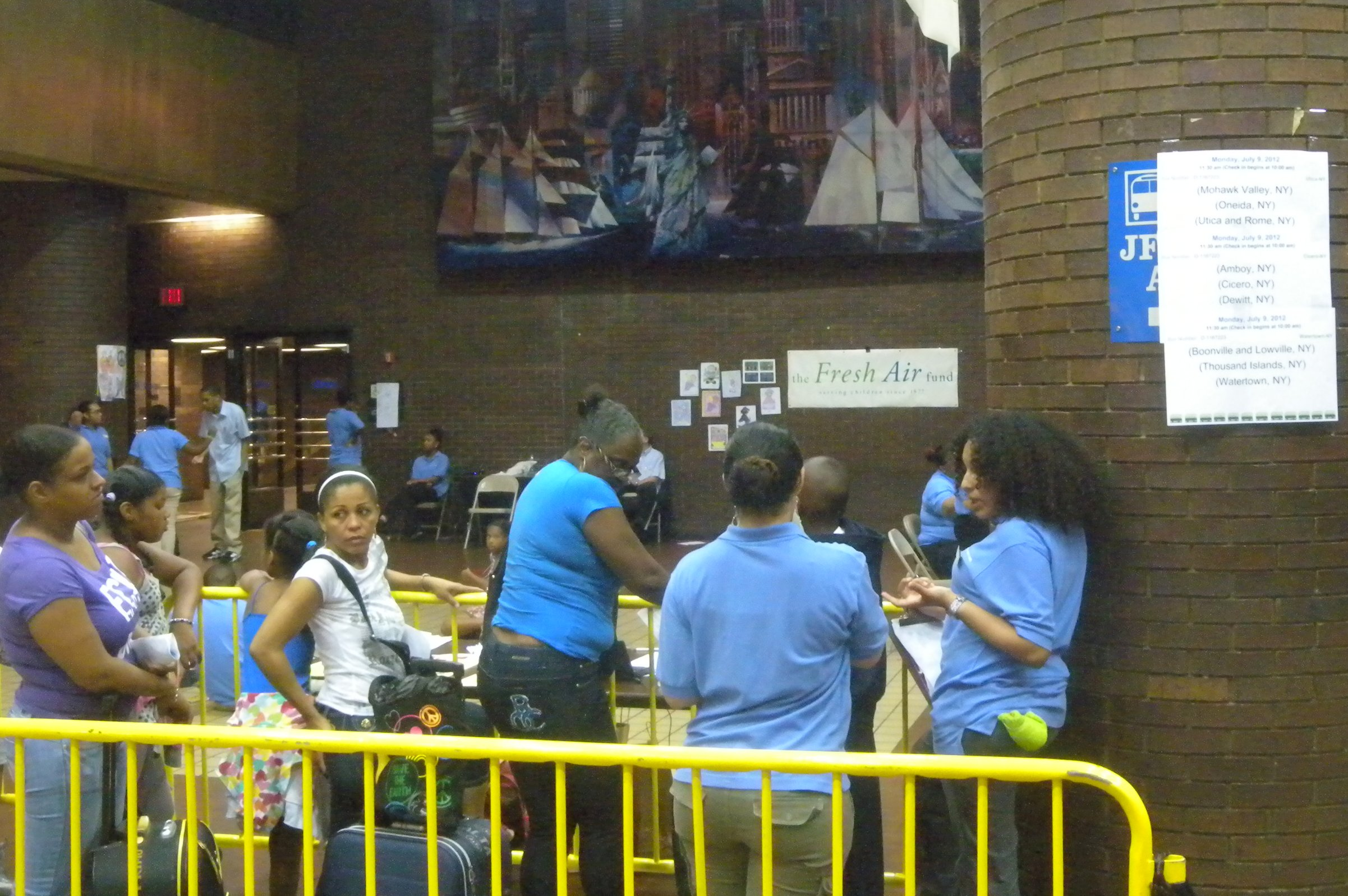 Looking west in north wing of PABT at Fresh Air Fund gathering for Upstate buses.